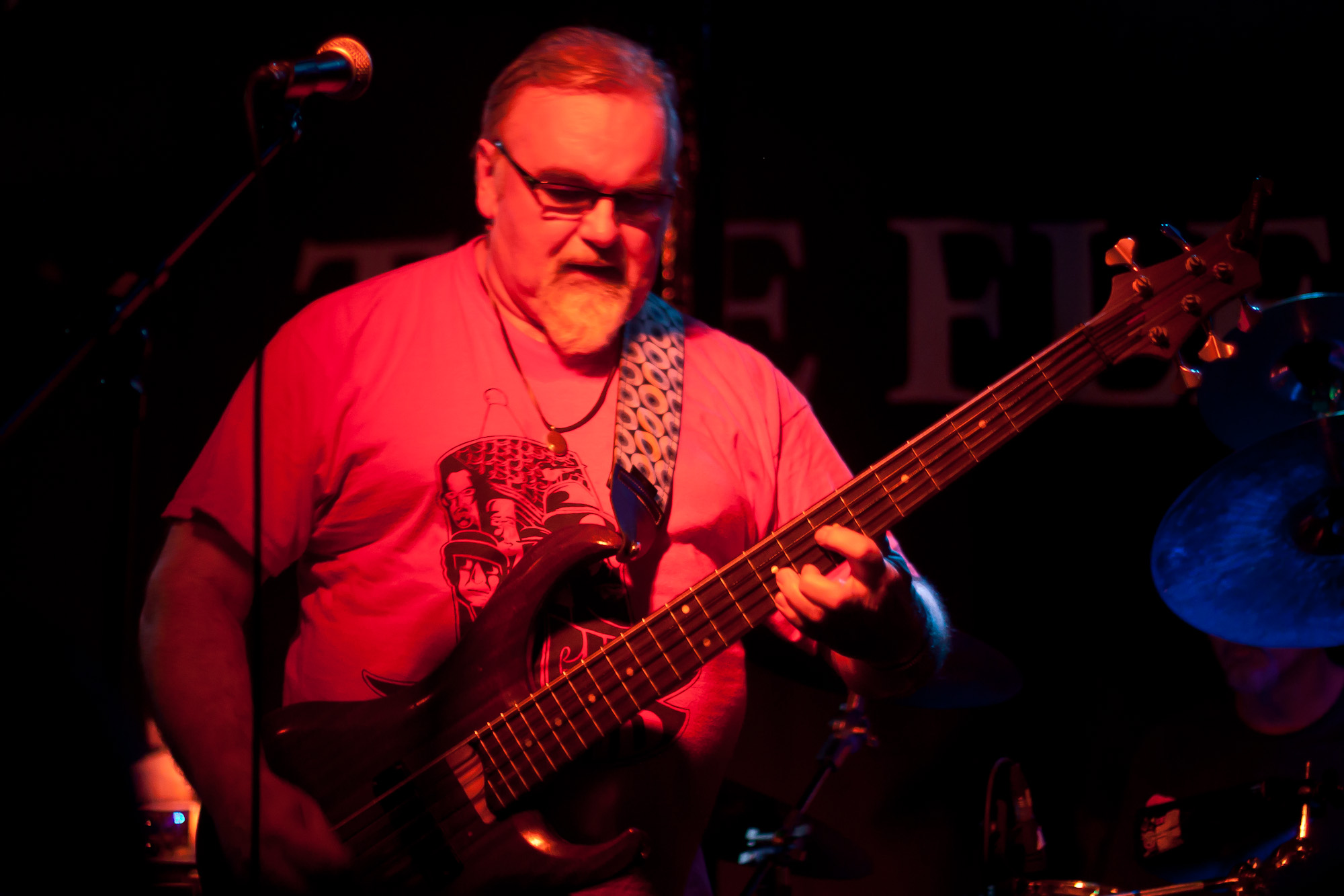 Rockette Morton with The Magic Band at The Fleece, Bristol March 4, 2013